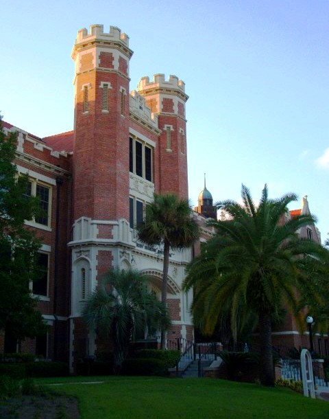 Florida State University Westcott Building